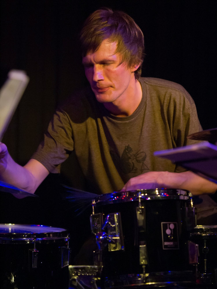 Peter Bruun, Jazz drummer; Picture taken in Jazz Club Unterfahrt, Munich/Bavaria